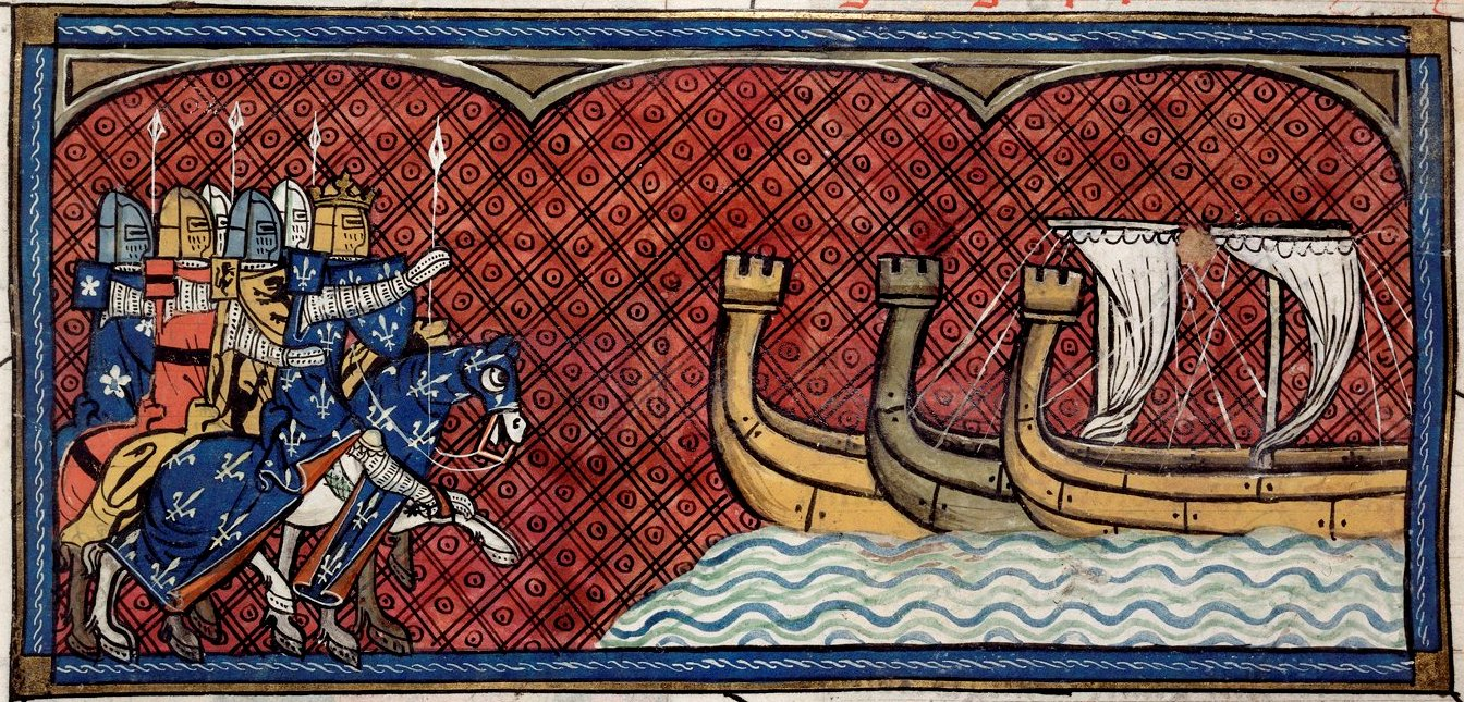 Detail of a miniature of Philip Augustus awaiting his fleet.